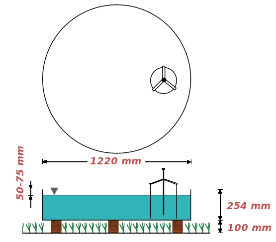 Schematic representation of a evaporimeter class A